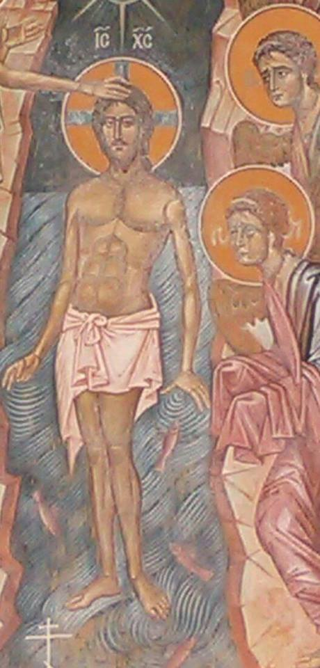 A depiction of Jesus's baptism in the Lepavina Monastery complex, Croatia.